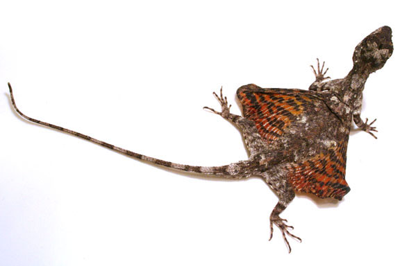 Draco volans, also called the "Flying Dragon", is a lizard from the Phillipines